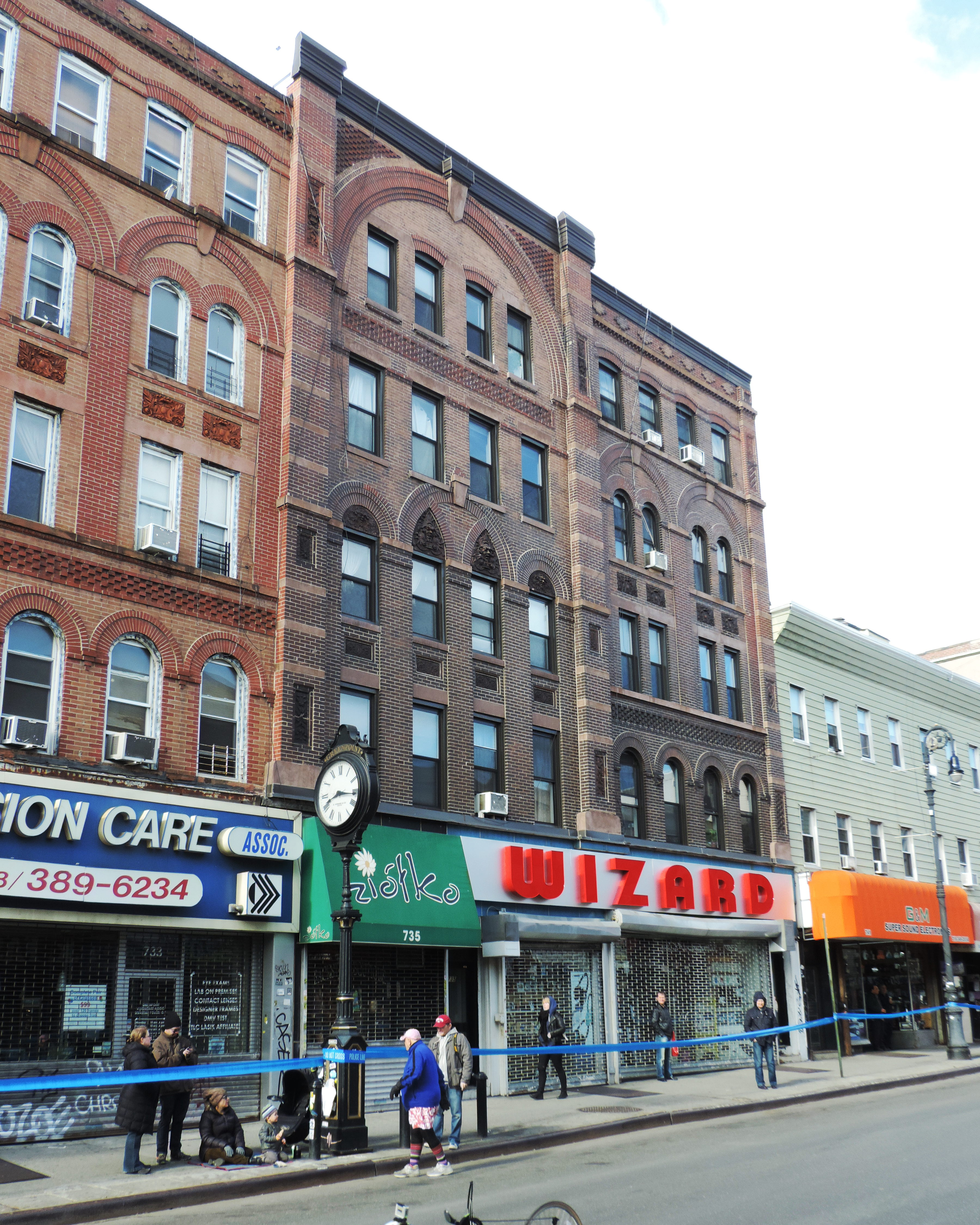 Building with clock, awaiting the Marathon runners.